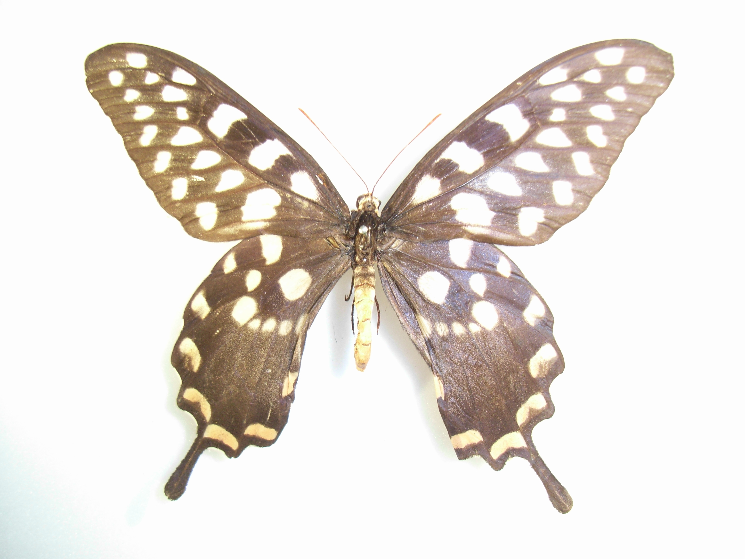 Pharmacophagus antenor (Drury, [1773]) Male